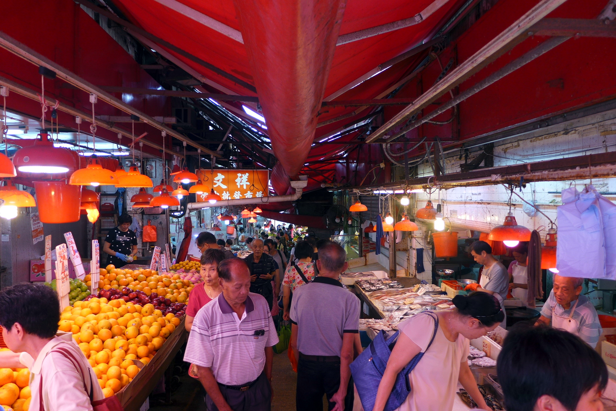 Shui Wo Street